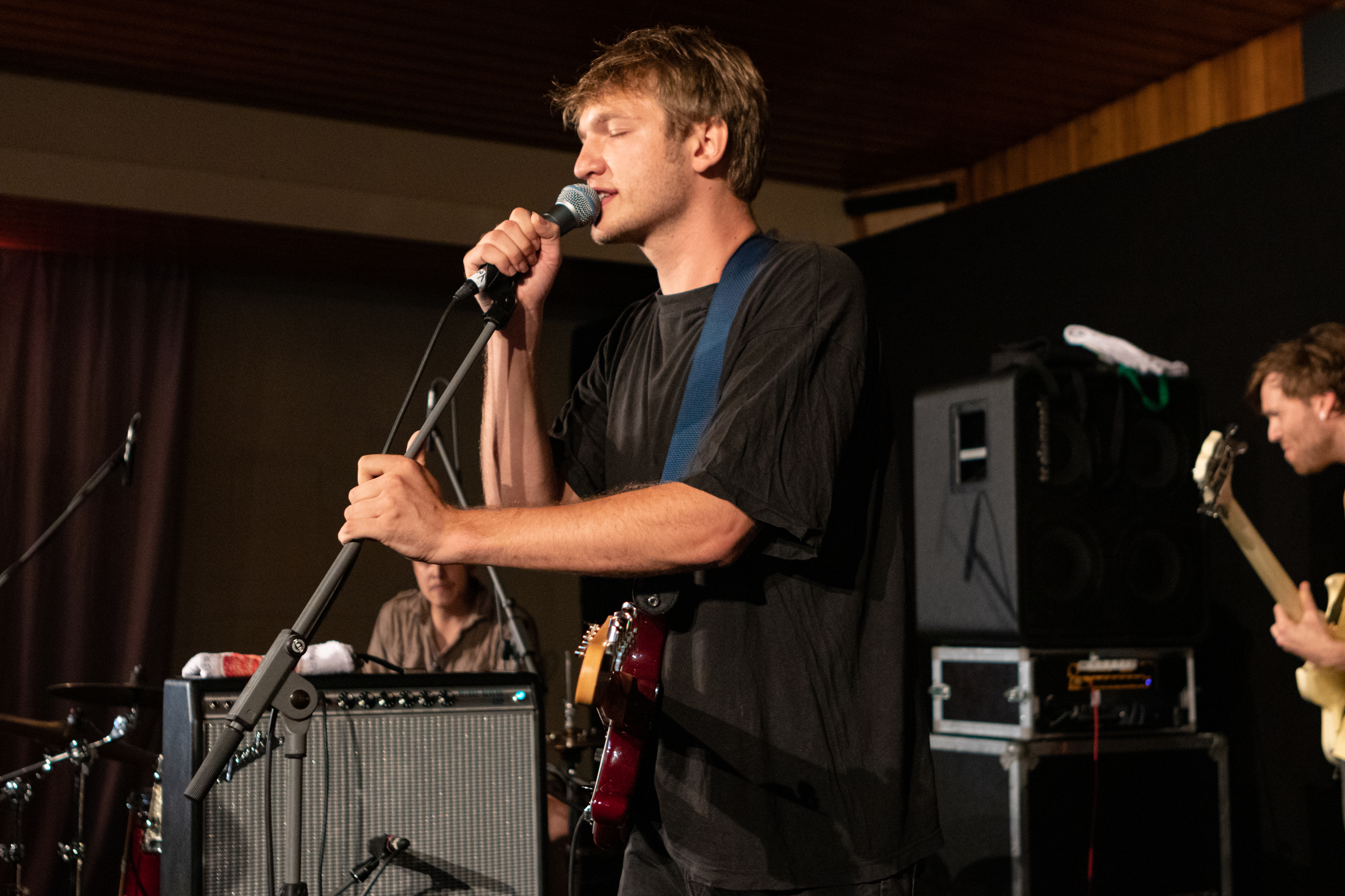 Felix Kramer in the Jugendheim at Haldern Pop Festival 2019.